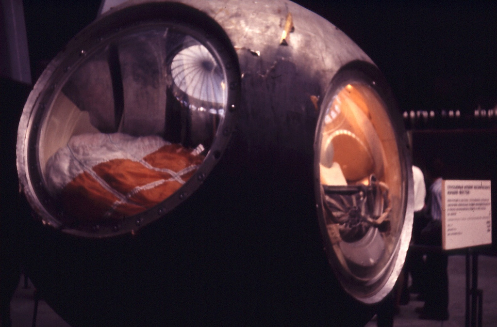 Yuri Gagarin's space capsule in the Moscow Cosmonautics museum, Russia